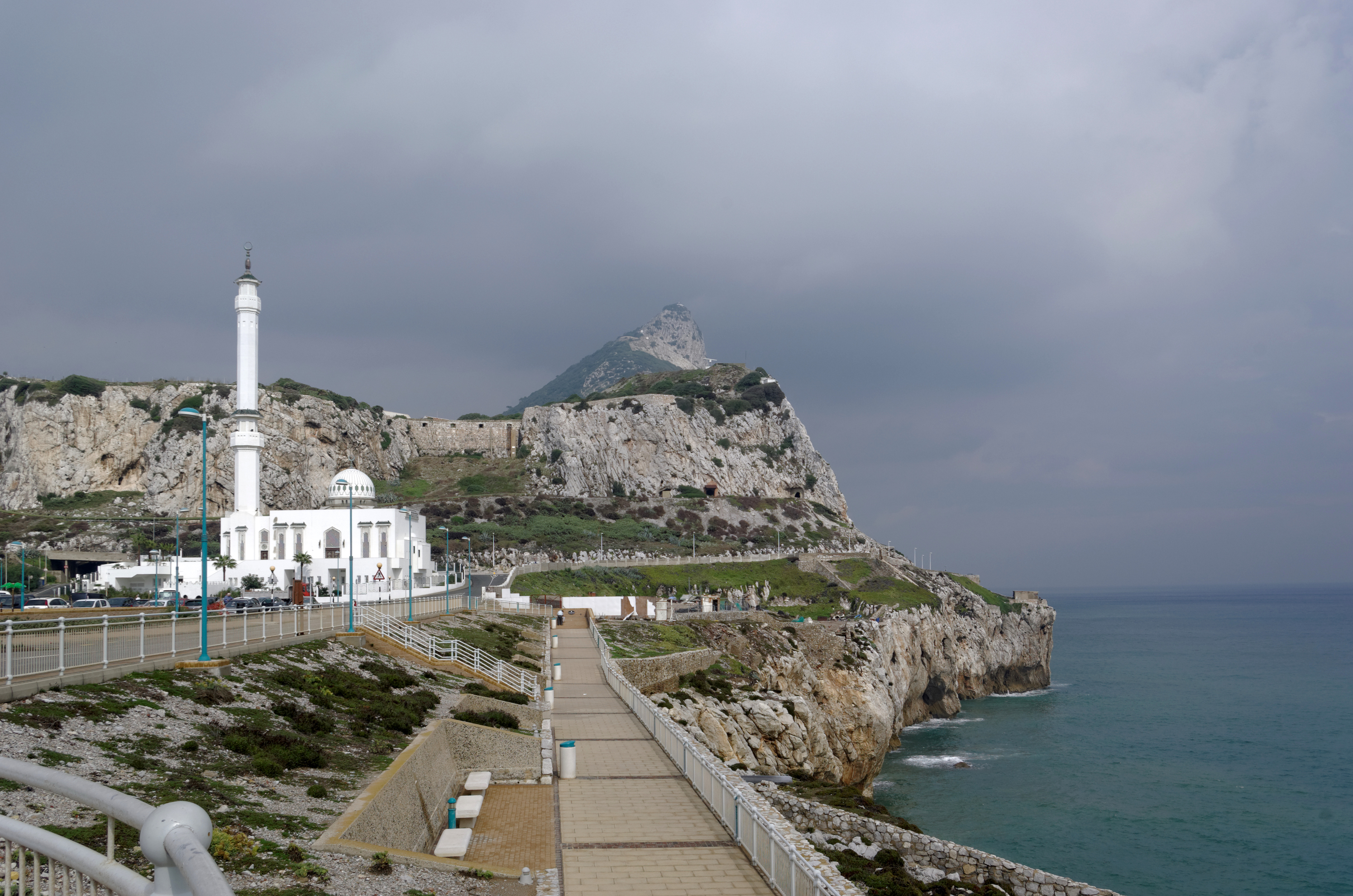 Gibraltar, Ibrahim-al-Ibrahim Mosque at the Europa point and the Rock of Gibraltar